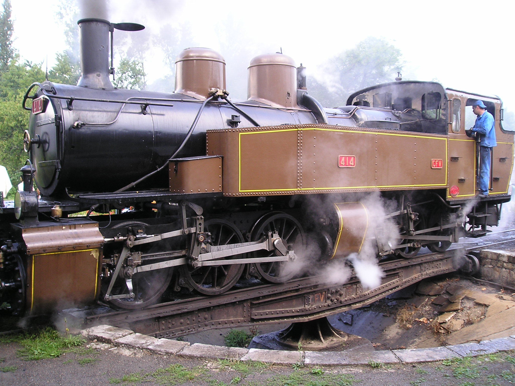 0-6-6-0T Mallet locomotive from the French tourist line "Chemin de fer du Vivarais"